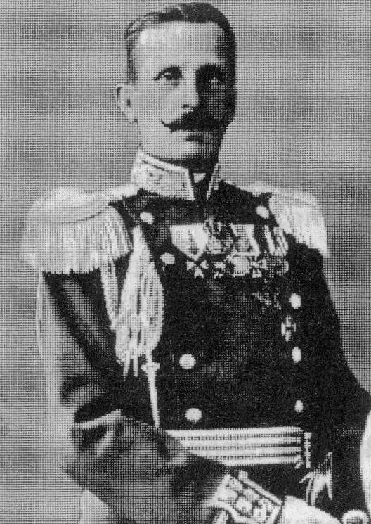 Nikola Zhekov was a Bulgarian general who served as Commander-in-Chief of the Bulgarian army during World War I